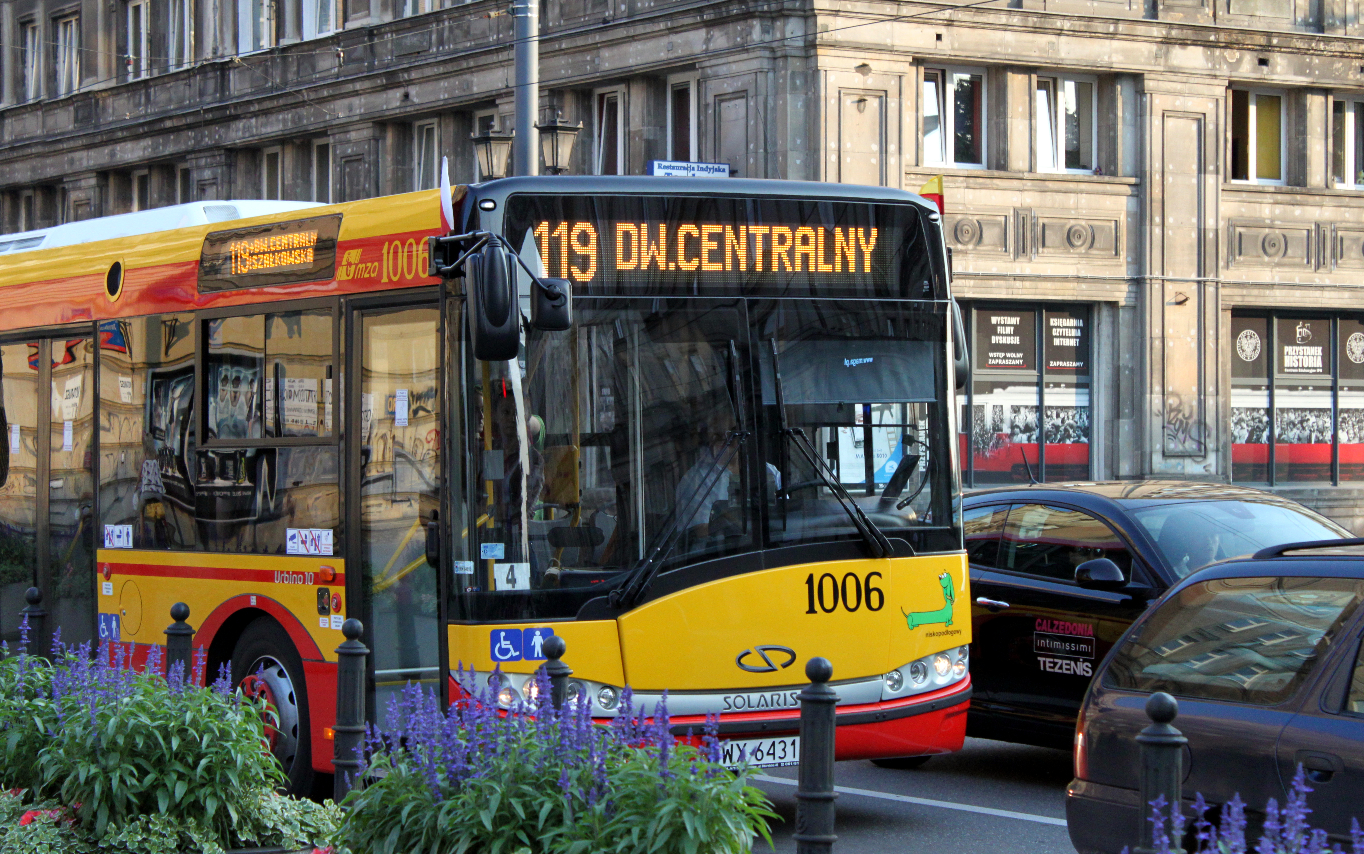 Bus Solaris Urbino 10 W1 (#1006, built in 2010, company MZA Warszawa) on line 119 on Marszałkowska Street in Warsaw, Poland.